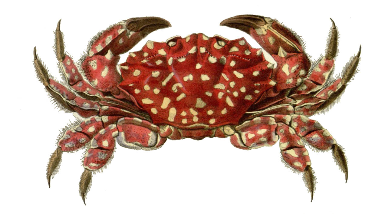 Lophozozymus Sp.